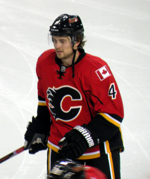 Calgary Flames defenceman Kris Russell prior to a National Hockey League game in Calgary.